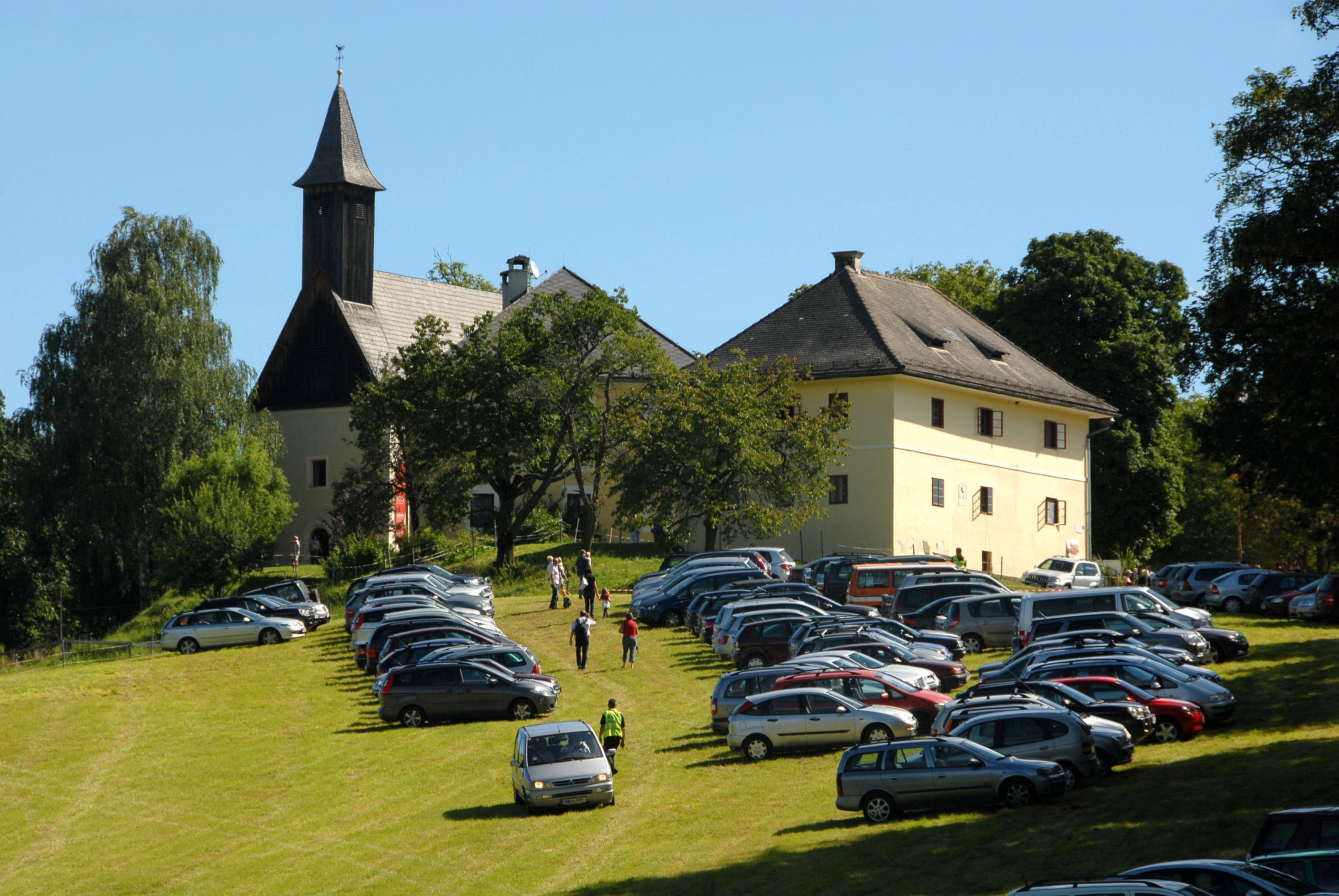 Hamlet Tauern in the municipality Ossiach, district Feldkirchen, Carinthia, Austria